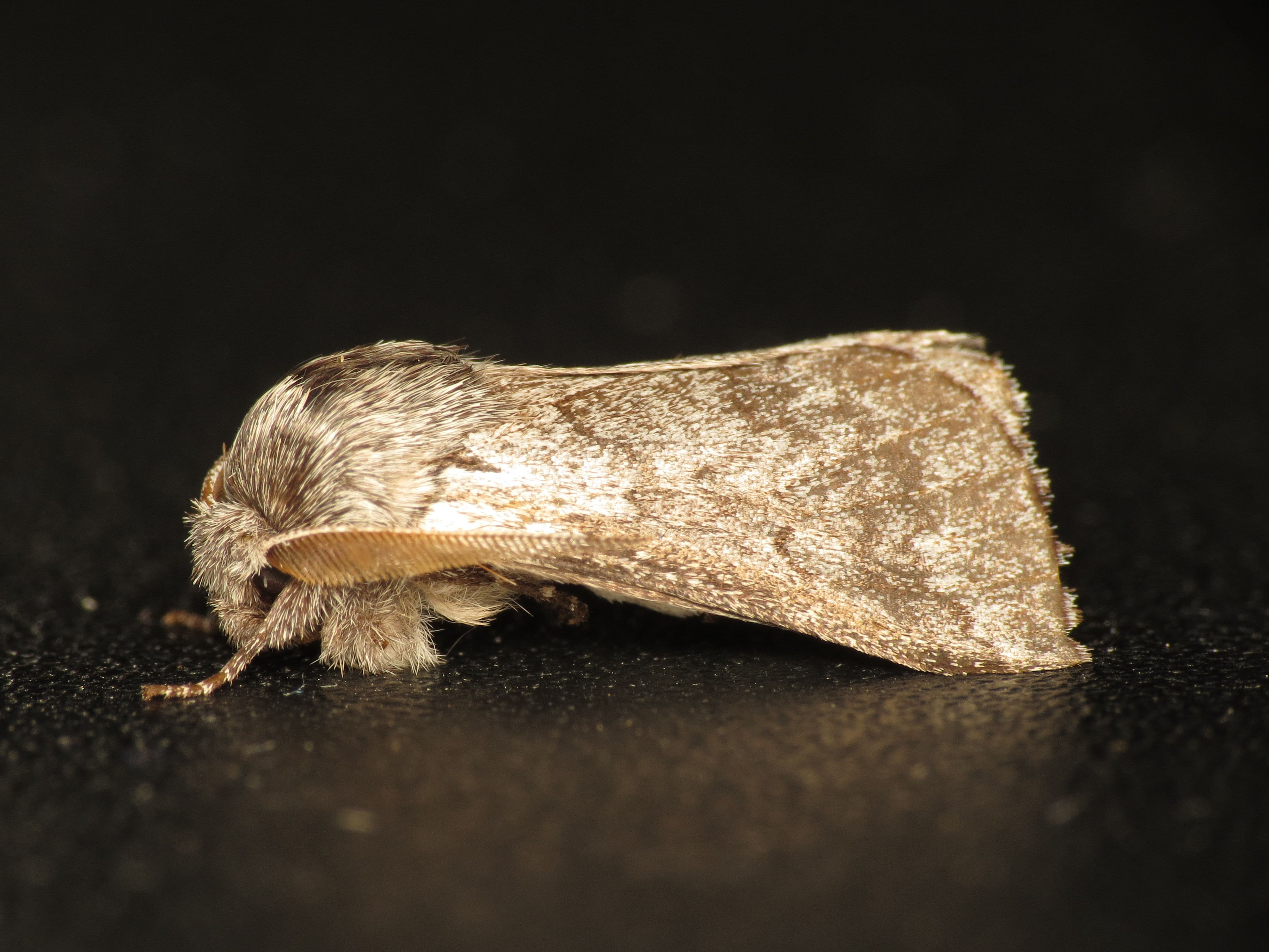 Munychryia senicula Walker, 1865, to MV light, Merimbula, NSW, 11/12 January 2014